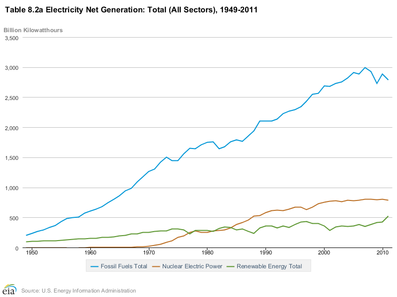 US electrical generation: fossil fuels vs. nuclear and renewable energy